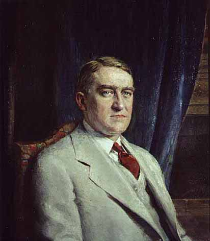 Oil Painting of Governor Jacob Aall Ottesen Preus Painter: Carl Bohnen (1871-1951) Art Collection, oil 1927 Location no. AV1996.9.21 Negative no. 83116